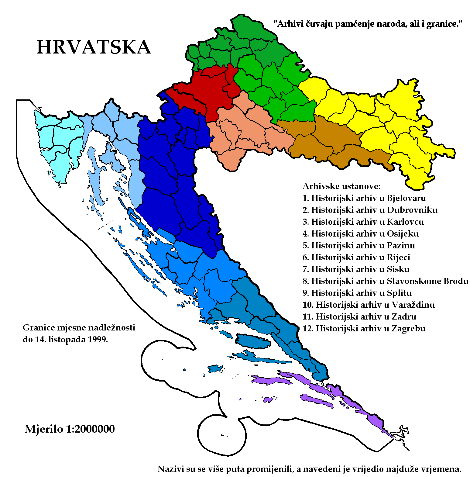 Archives in Croatia untill 1999-10-14